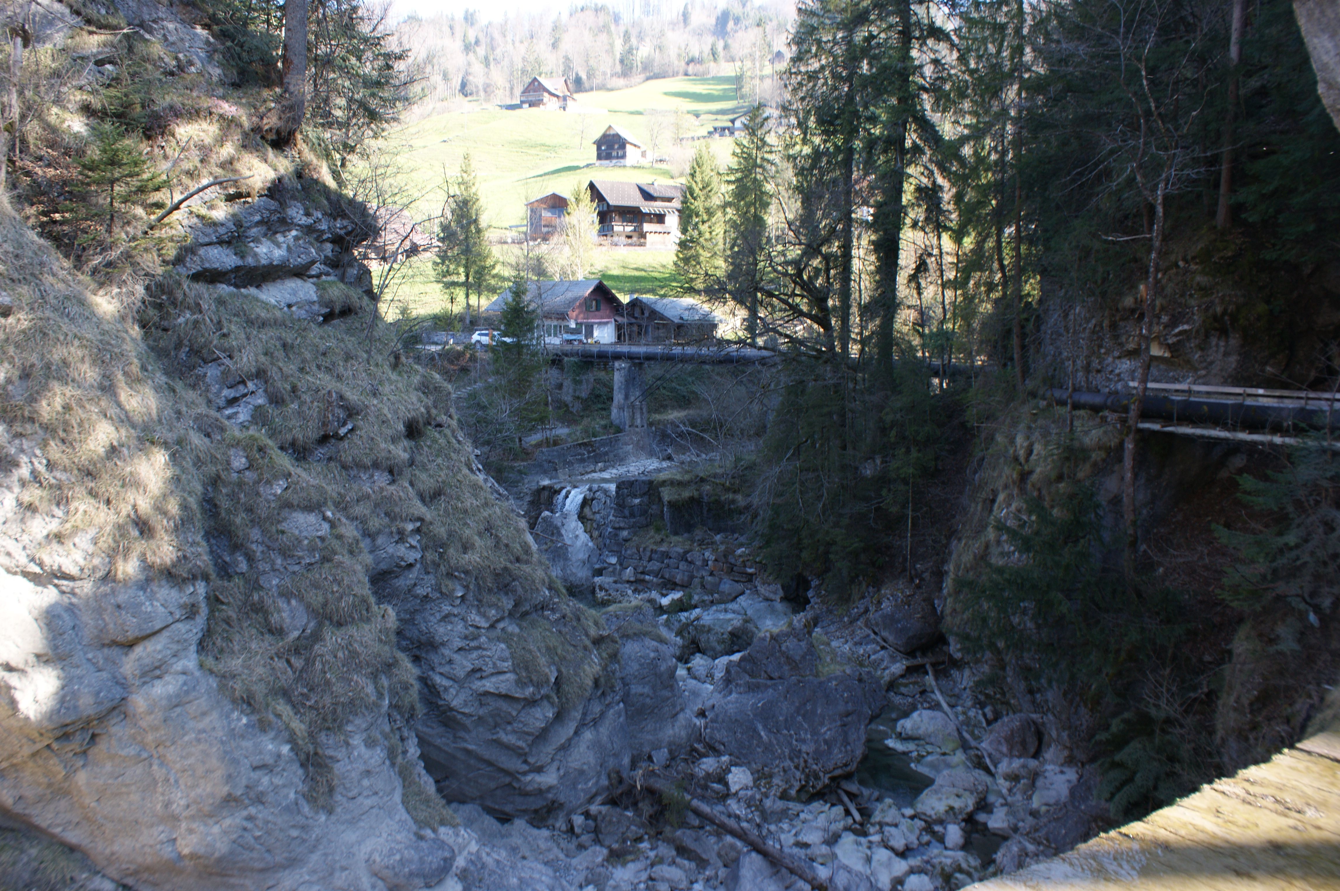 Start of the Rappenloschschlucht in Dornbirn (Gütle) in Vorarlberg, Austria. In the background the Rappenloch-Gorge-kiosk and the "Beckenmann" plot.